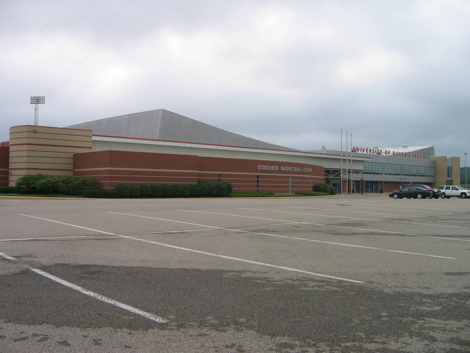 Football & Basketball Facilities U Dayton off-campus Arena